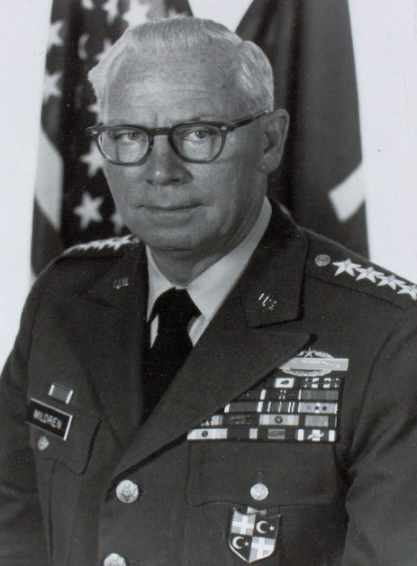 General Frank Thomas Mildren